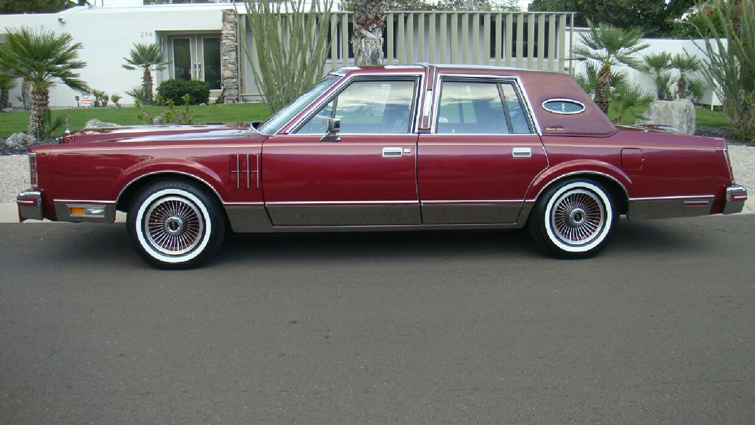 Signature Series Mark VI